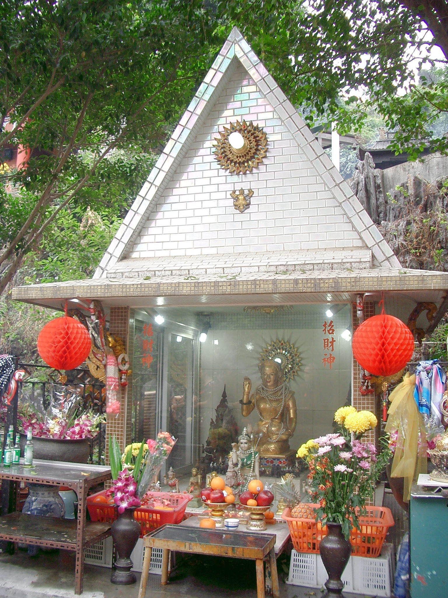 Nang Kwak Statue of Koon Ngam Ching Yuen, Sha Tin, New Territories, Hong Kong 中文（香港）: 香港，新界，沙田，大圍，古巖淨苑，千佛寶殿。